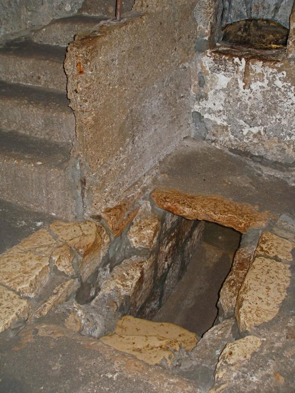 Entrance to Lazarus' burial chamber. Bethany. Holy Land.